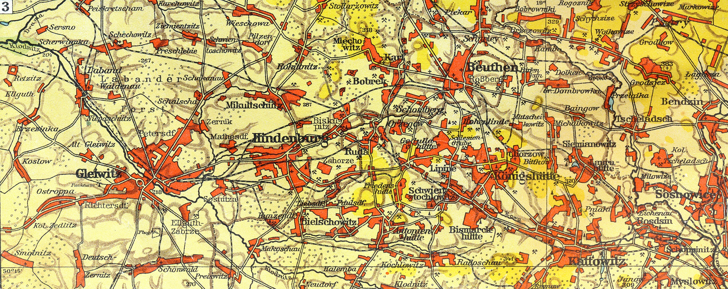 This is a part of an old atlas. It does not necessarily represent the current situation.